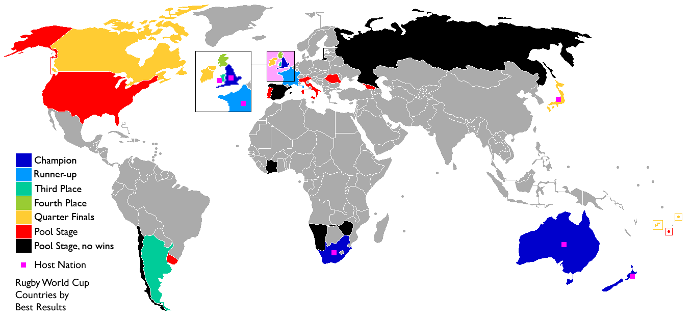 A map showing countries best results and host countries of the Rugby World Cup. Revised version summary: losing pool teams recoloured in black; Italy added and coloured red; British Isles redrawn in double scale inset; host dots doubled in size; host dot moved from Ireland to Wales.